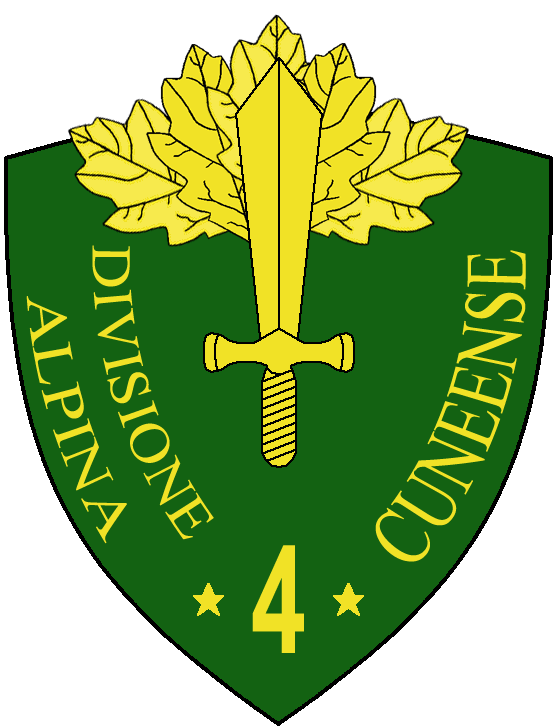 4th Italian Alpine Division "Cuneense" Coat of Arms (WWII)